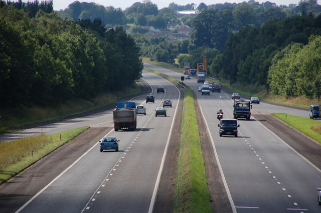 The M22 at Ballygrooby. The M22 was intended as a westward extension of the M2 from Antrim to Castledawson carrying traffic for the north west of NI. It opened in two sections in 1971 and 1973 to just beyond Randalstown. The remainder was never built although the statutory procedures are now underway to build a dual carriageway instead. This is the view west towards Castledawson at Ballygrooby near Randalstown.